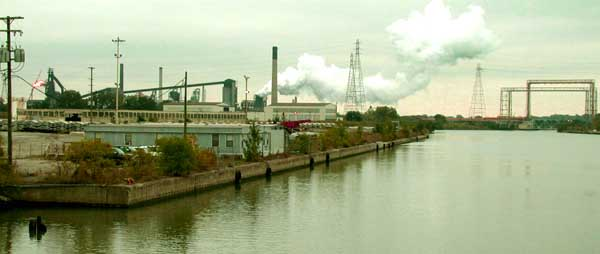 Industrial area along the riverfront in River Rouge, Michigan (taken Sept. 28, 2004) © 2004 Matthew Trump